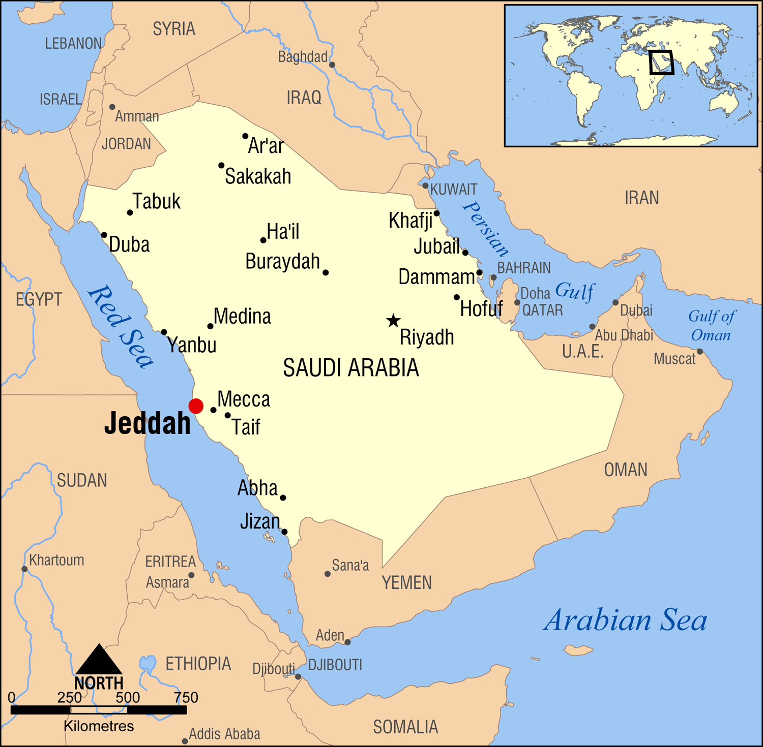 Locator map of Jeddah, Saudi Arabia. Created by NormanEinstein, April 20, 2007.